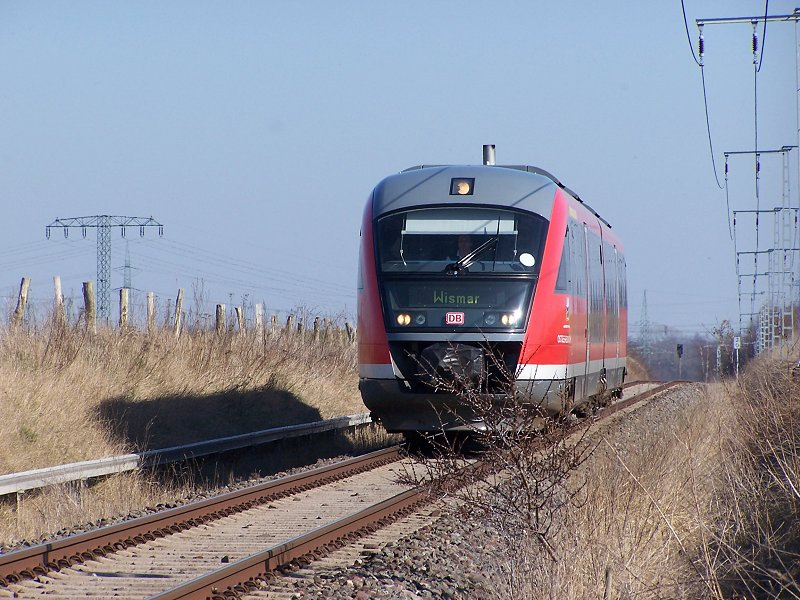 Shows a German light Railway Class 642 driving as a Regionalbahn Line 11 from Tessin to Wismar via Rostock and Bad Doberan southeast of Rostock close to the valley of river Warnow.